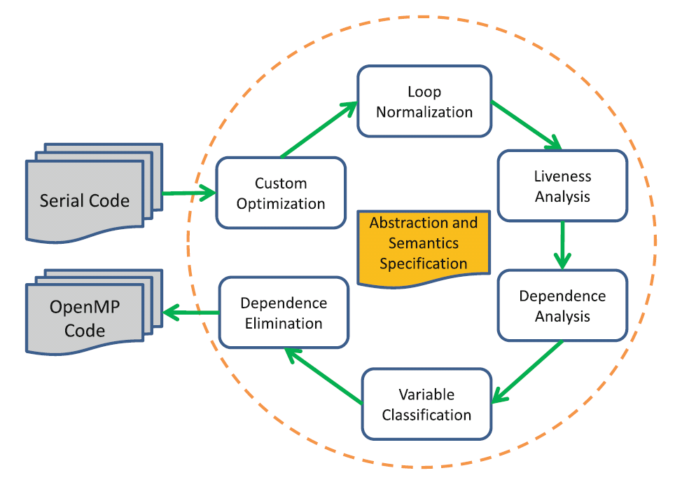 Diagram explaining how the autoPar programming tool works